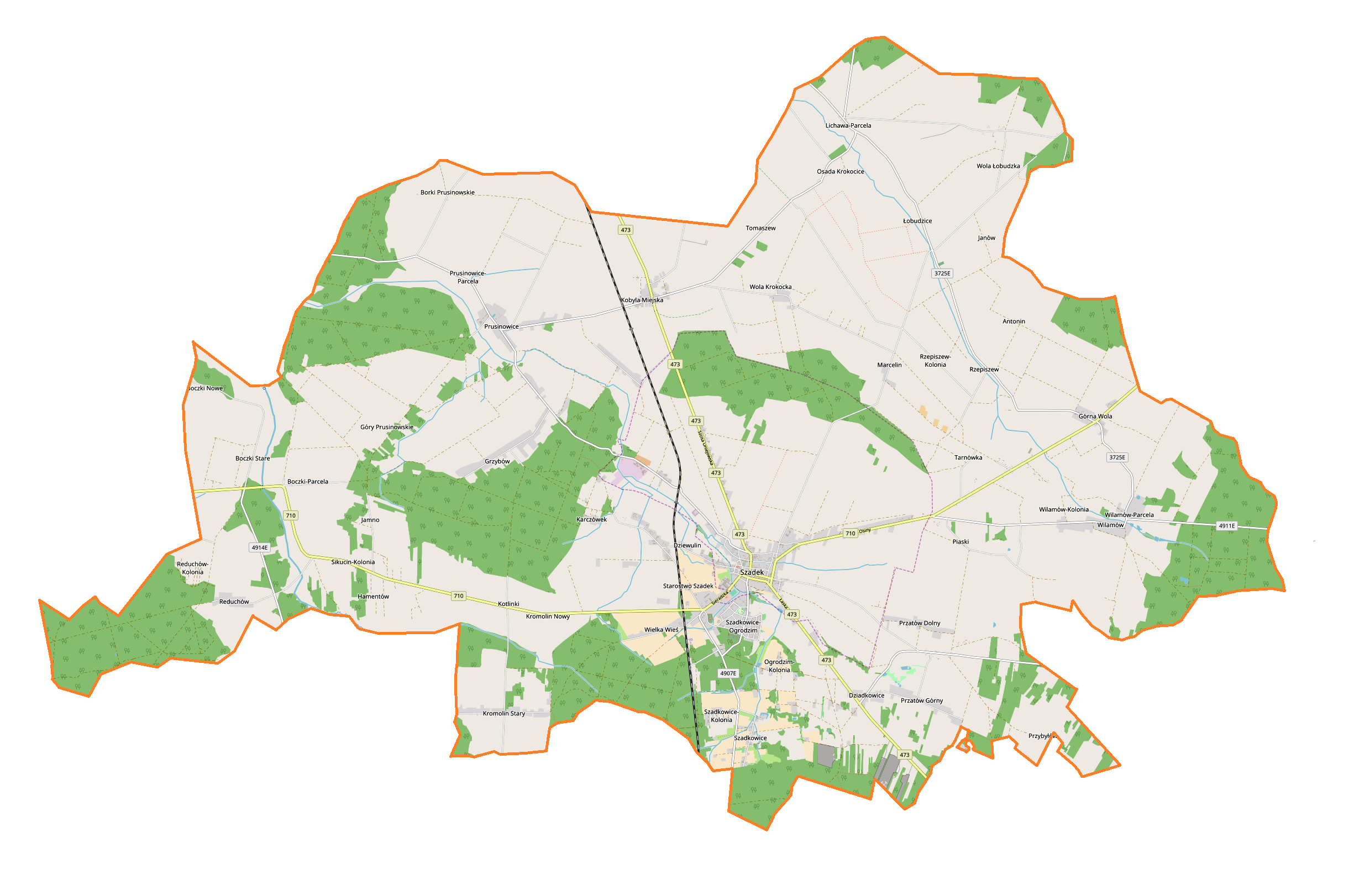 Location map